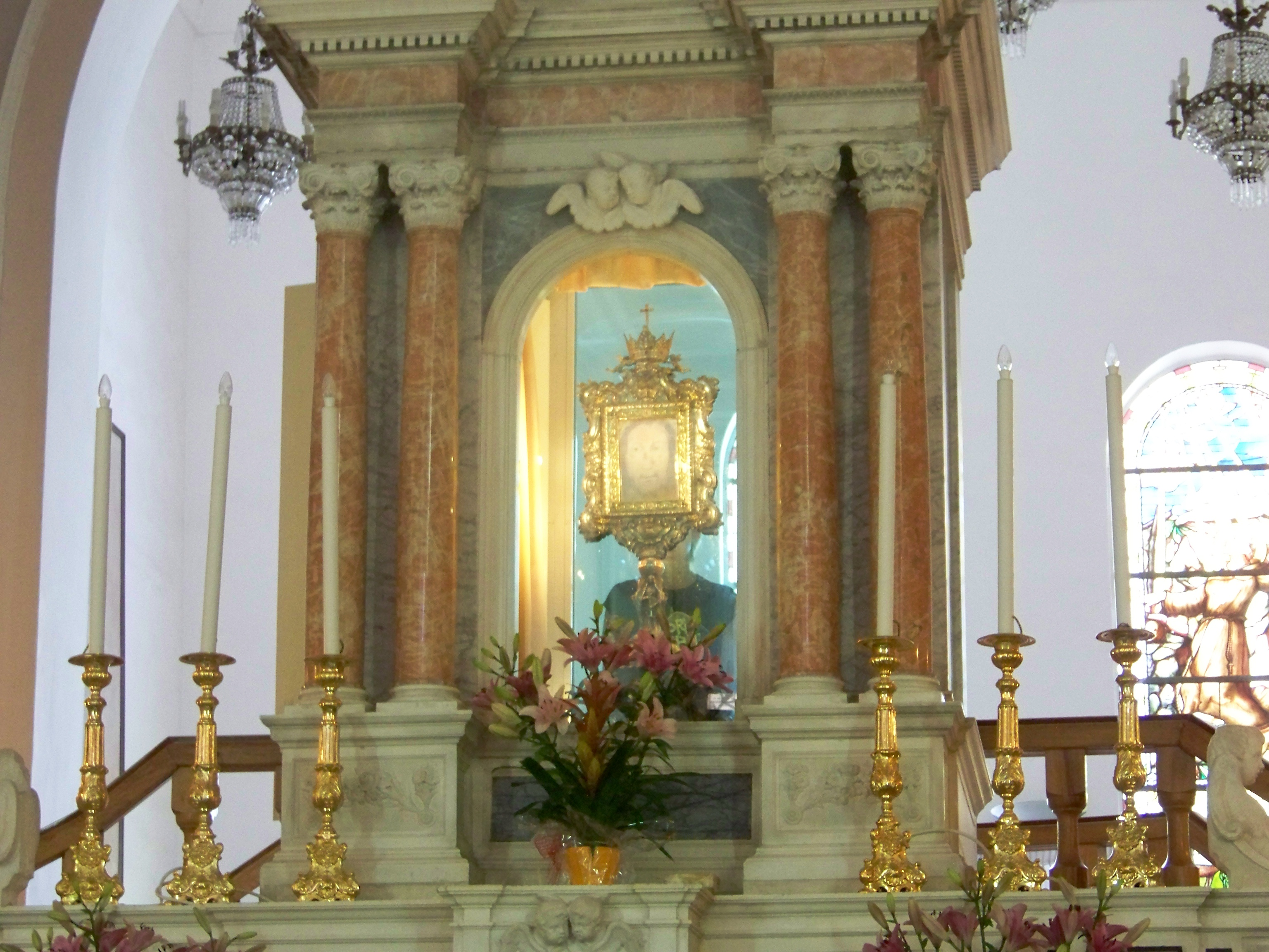 Volto Santo di Manoppello Jesus Christ Veil, Abruzzia Region, Italy. See website.